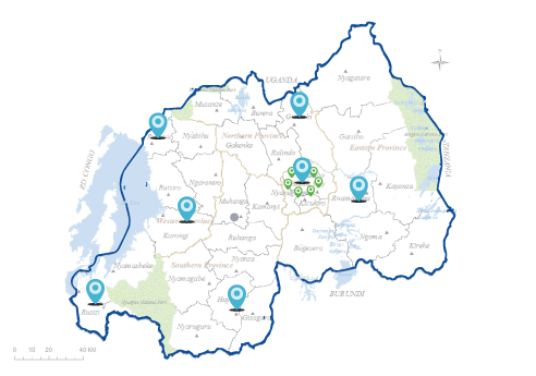 Map showing I&M Bank Branches across Rwanda